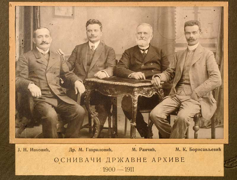 Founders of the Archive of Serbia. Text reads: "Founders of the State Archive 1900-1911". From left to right: J. N. Ivković, Dr. M. Gavrilović, M. Rančić and M. K. Borisavljević. Srpskohrvatski / српскохрватски: Оснивачи Архива Србије (ранији званичан назив "Државни архив"). Слева на десно: Ј. Н. Ивковић, др М. Гавриловић, М. Ранчић и М. К. Борисављевић.